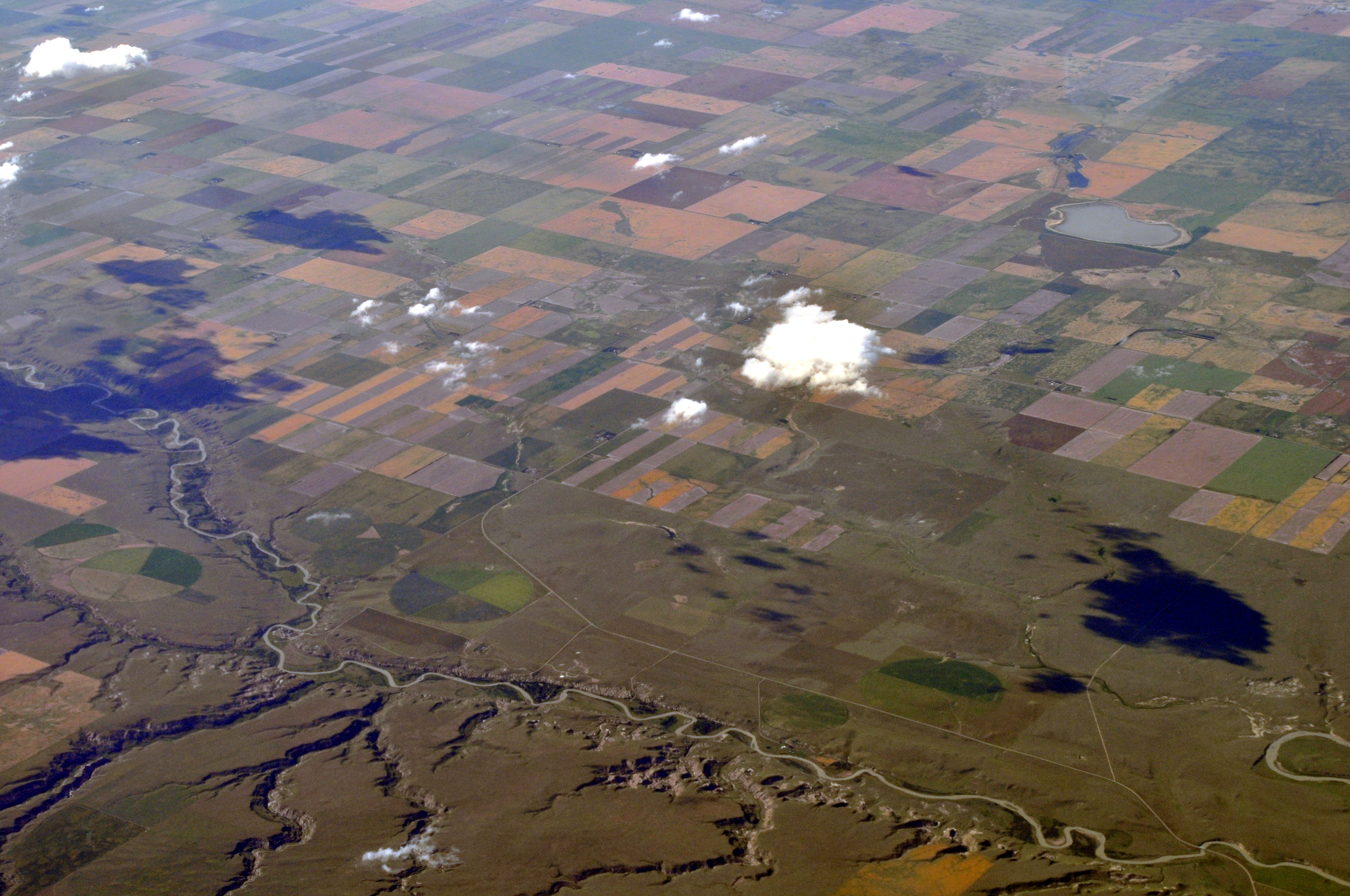 Aerial view from south, northeast of Coutts, Alberta, Canada, showing (among other things) Writing-on-Stone Provincial Park (Áísínai’pi National Historic Site of Canada). Park is at: Object location49° 05′ 00.73″ N, 111° 37′ 01.83″ W